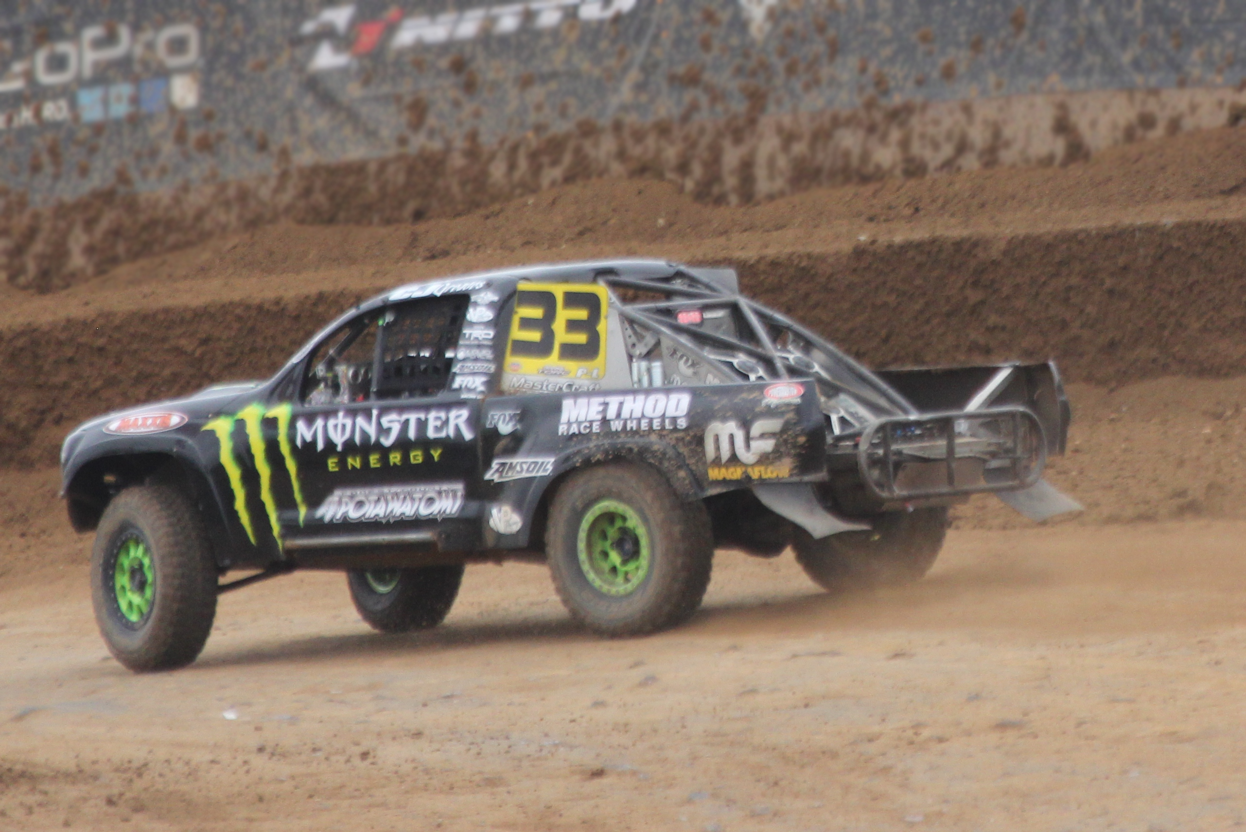 The Pro Lite off-road truck of C.J. Greaves racing in the barn turn at Crandon International Off-Road Raceway.